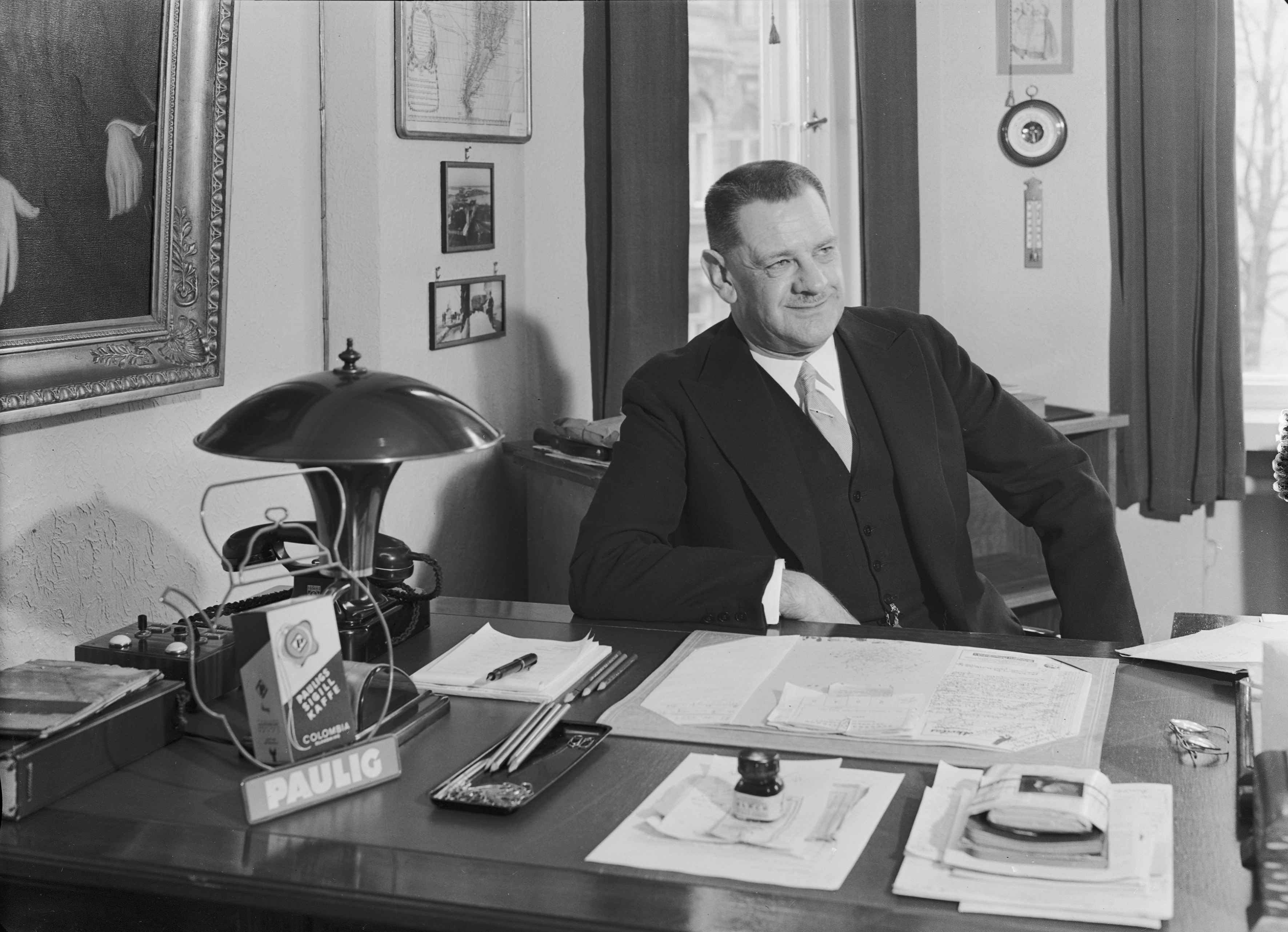 Photograph of the Finnish managing director Eduard Paulig (1889–1953).